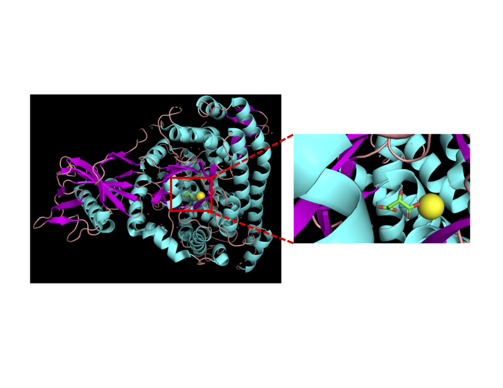 This image depicts the entire malate synthase enzyme, as well as a closer view of the active site. In this crystal structure, the enzyme is bound to its product, malate, and the coordinating magnesium cation is shown.